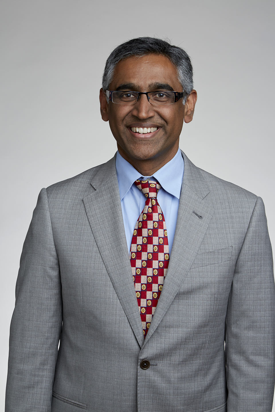 Ramanujan Shankar Hegde (born 1970) FRS is a Group Leader in the Medical Research Council (MRC) Laboratory of Molecular Biology (LMB). Attribution: The Royal Society